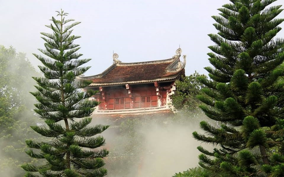 ĐôngTriều